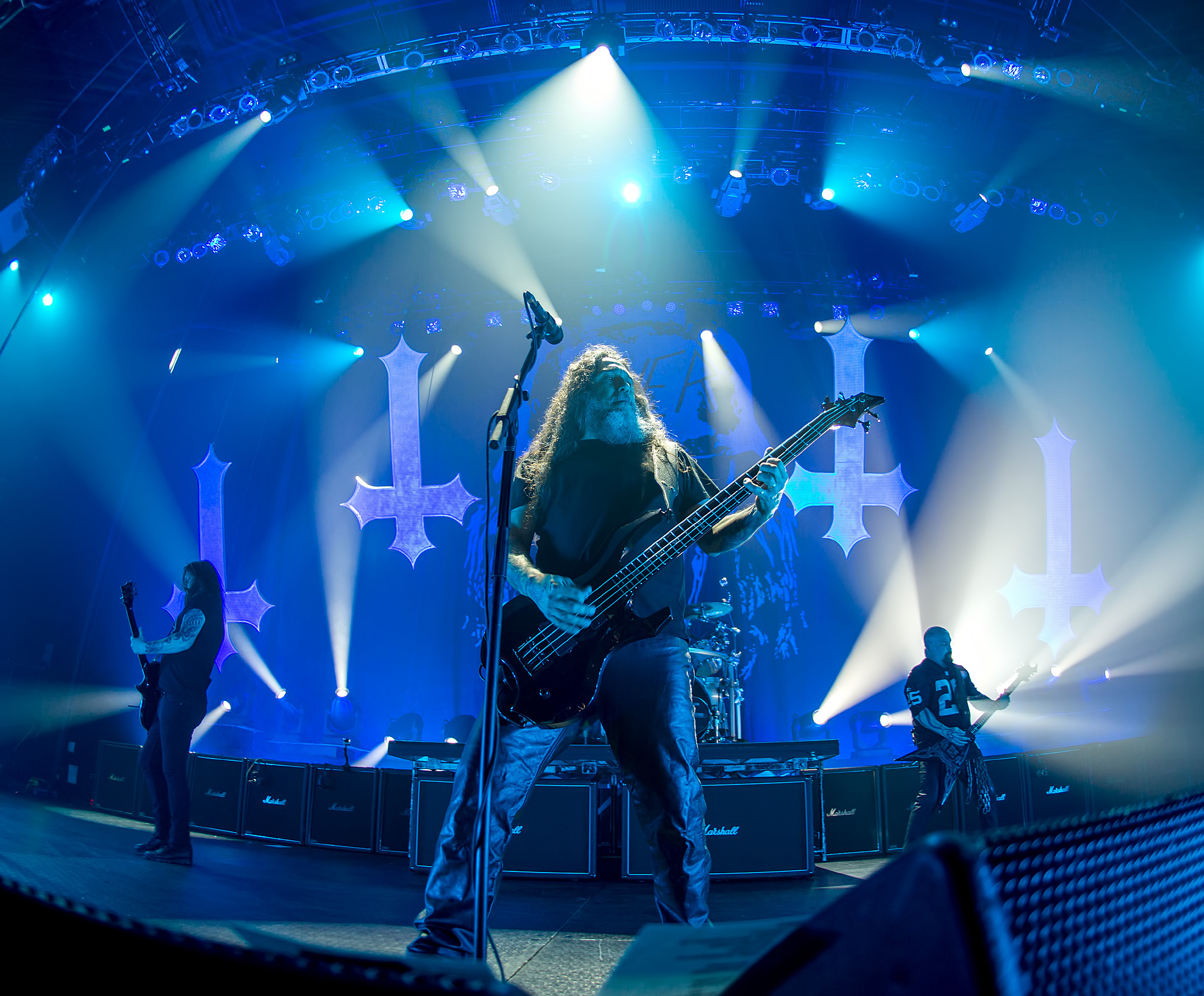 Slayer performing in Austin, Texas 2014-11-18.